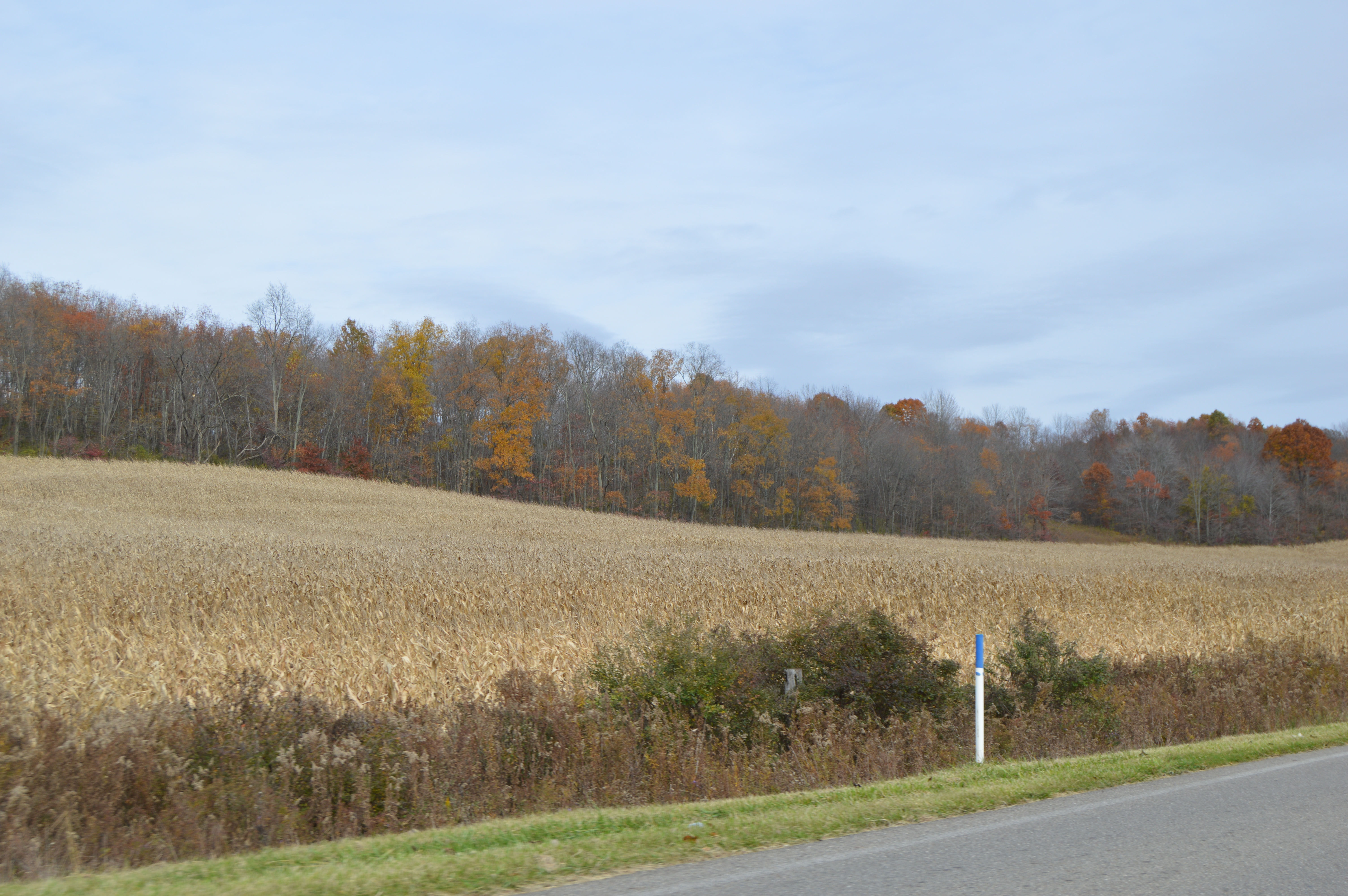 Fields on the northern side of Ideal Road east of the Vocational Road intersection in Jackson Township, Guernsey County, Ohio, United States.